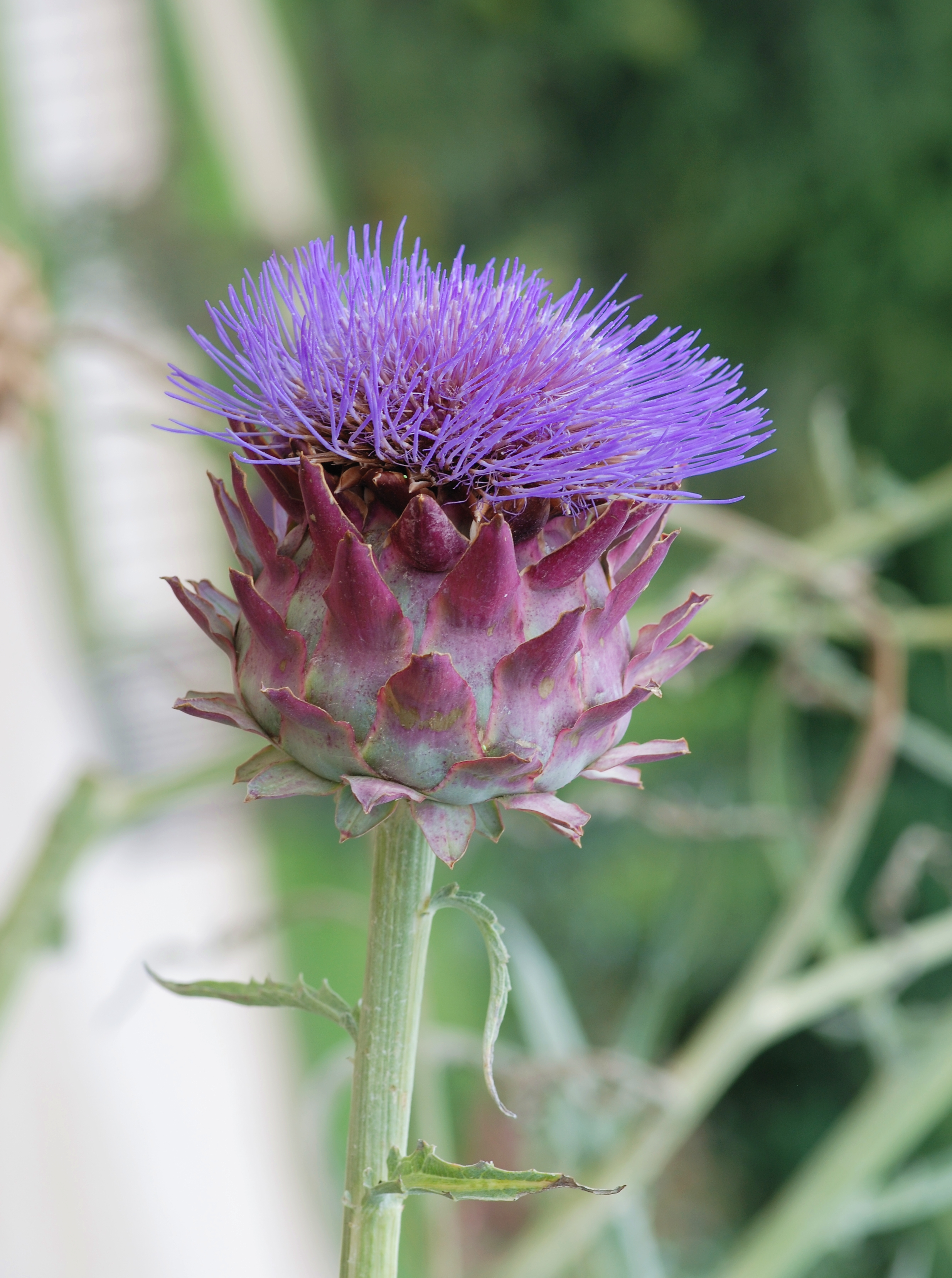 Flower of Artichoke (Cynara scolymus). Jardin des Plantes, Paris